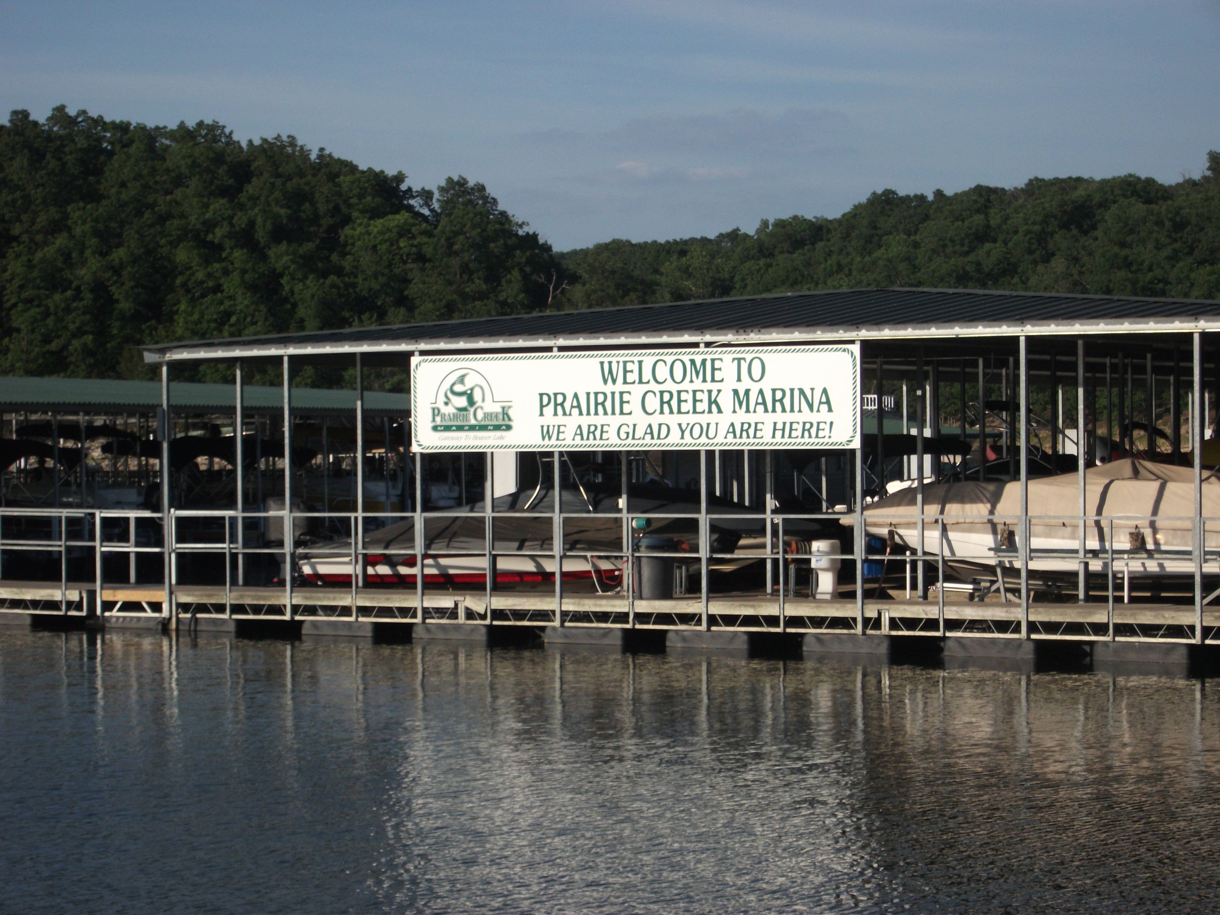 I took this photo at Prairie Creek Marina, Prairie Creek Arkansas. It is located on Beaver Lake, Arkansas.